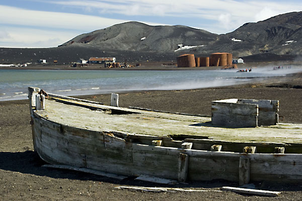 Abandoned station in Whaler's Bay on Deception Island in the Antarctic Peninsula.